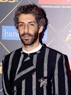 Jim Sarbh at the 2018 News18 Reel Awards